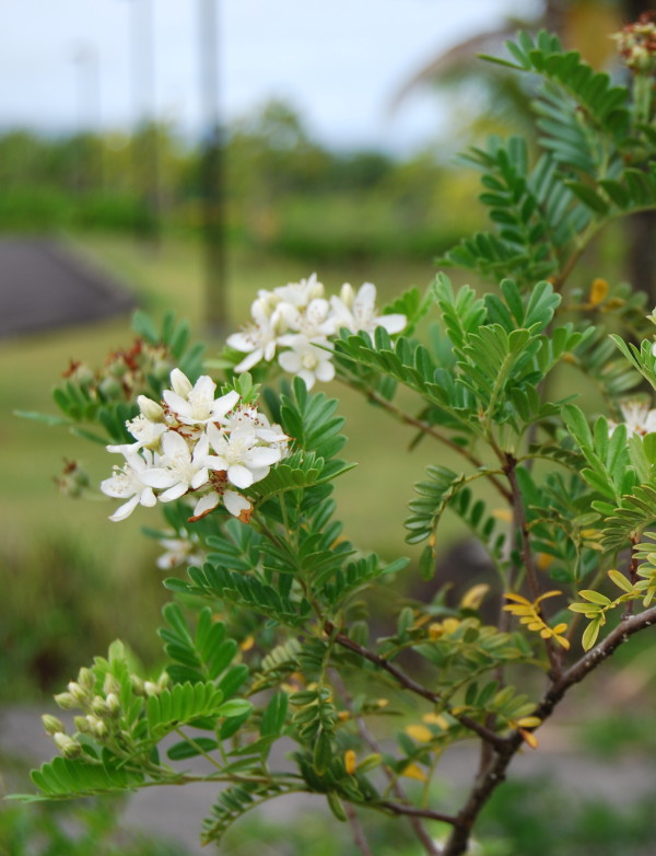 Osteomeles anthyllidifolia (Hawaiian Hawthorn, 'Ulei), picture taken at 'Imiloa in Hilo, HI